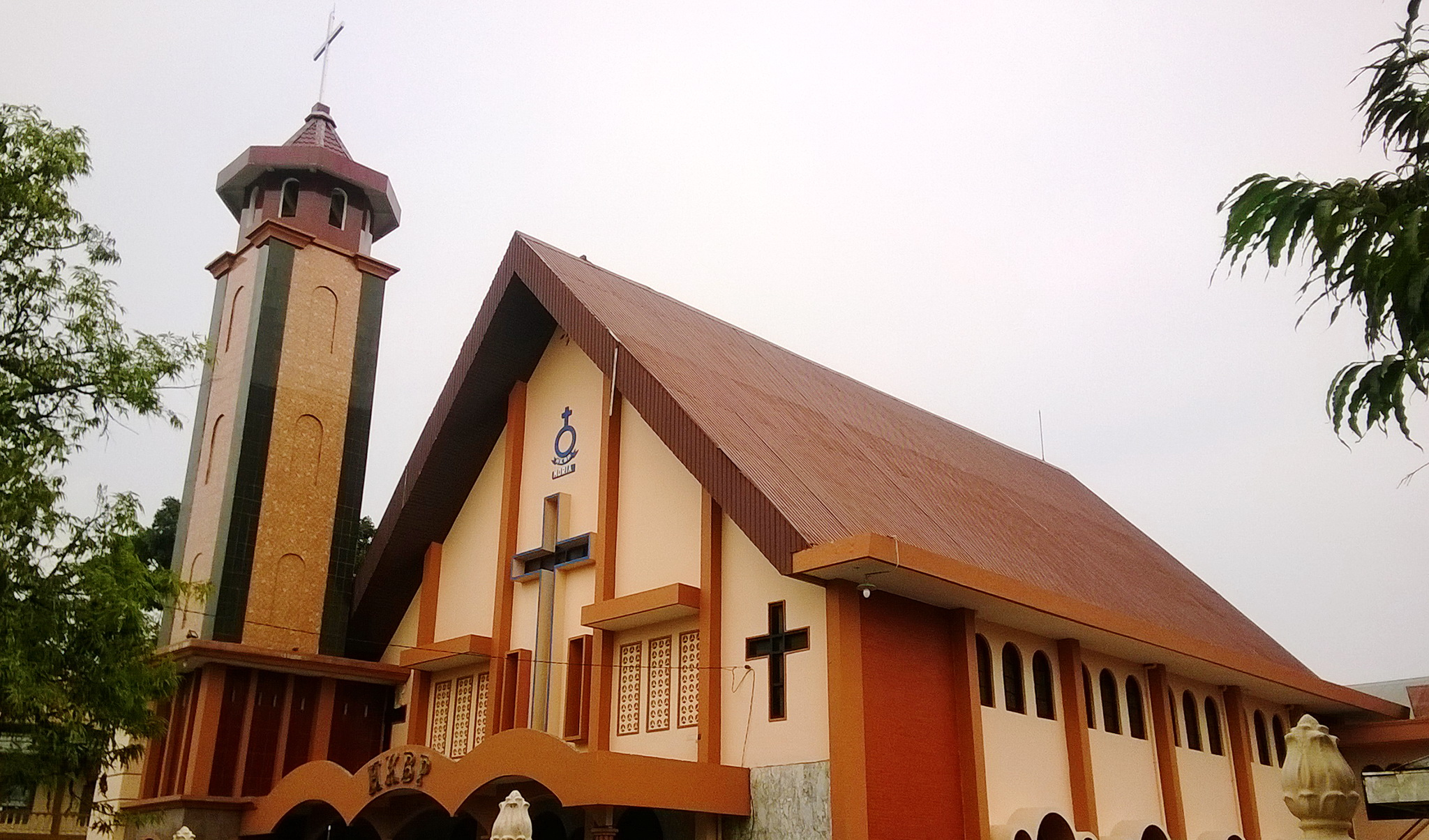 HKBP Moria, Res. Medan Baru, church in Babura Sunggal, Medan Sunggal, Medan